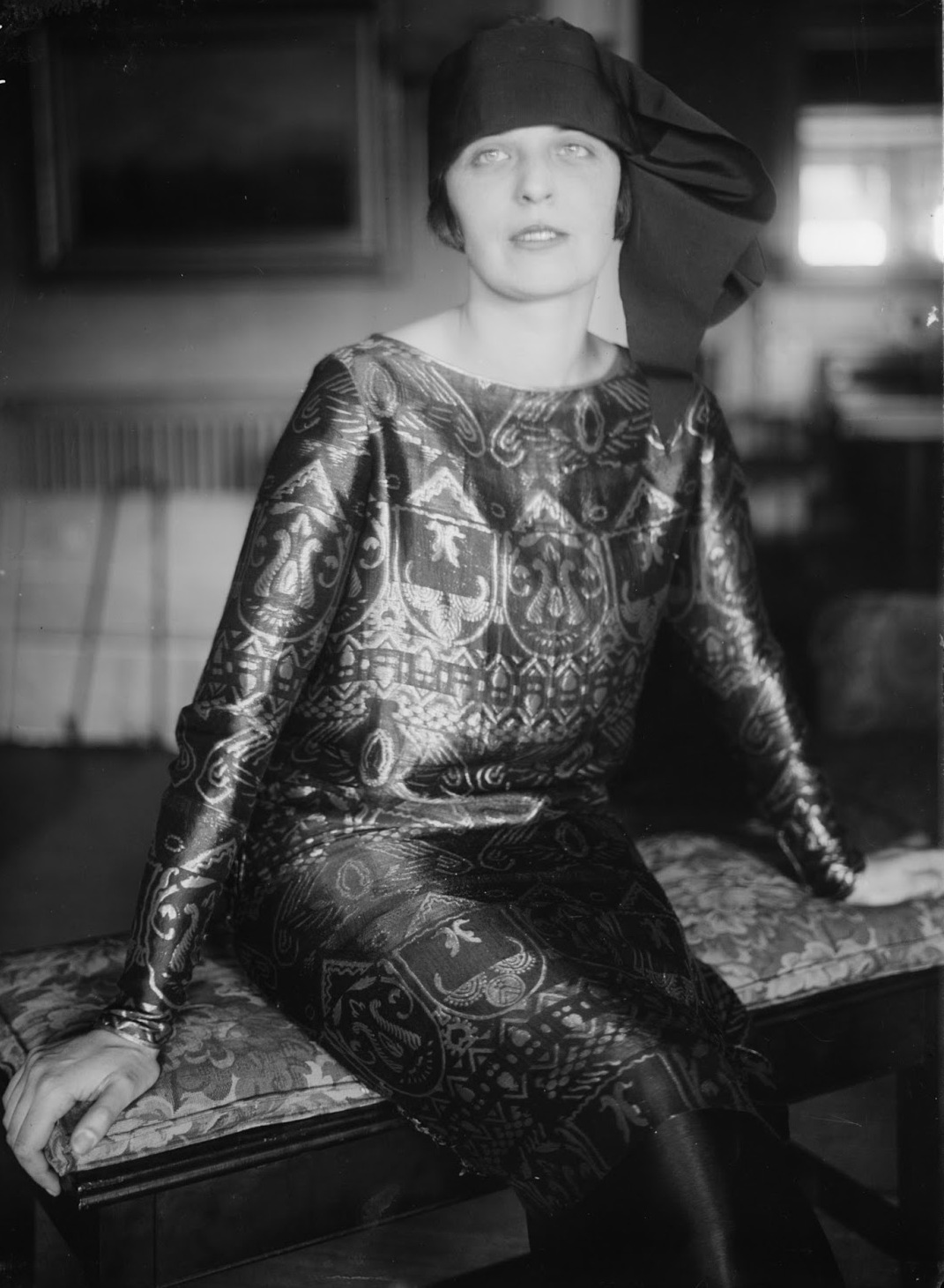 Katinka Andrassy, Mihály Károlyi's wife